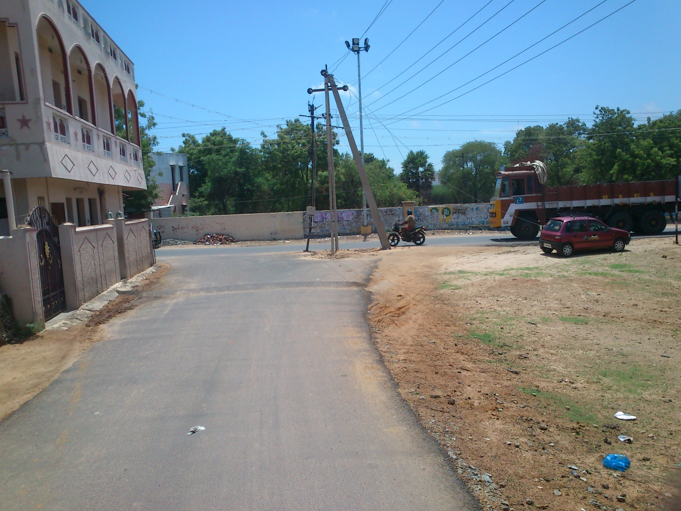 VAIKUNDARAJA.S